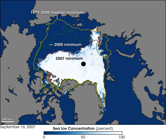 This image shows the Arctic as observed by the Advanced Microwave Scanning Radiometer for EOS (AMSR-E) aboard NASA’s Aqua satellite on September 16, 2007. The image shows a record sea ice minimum in the Arctic.